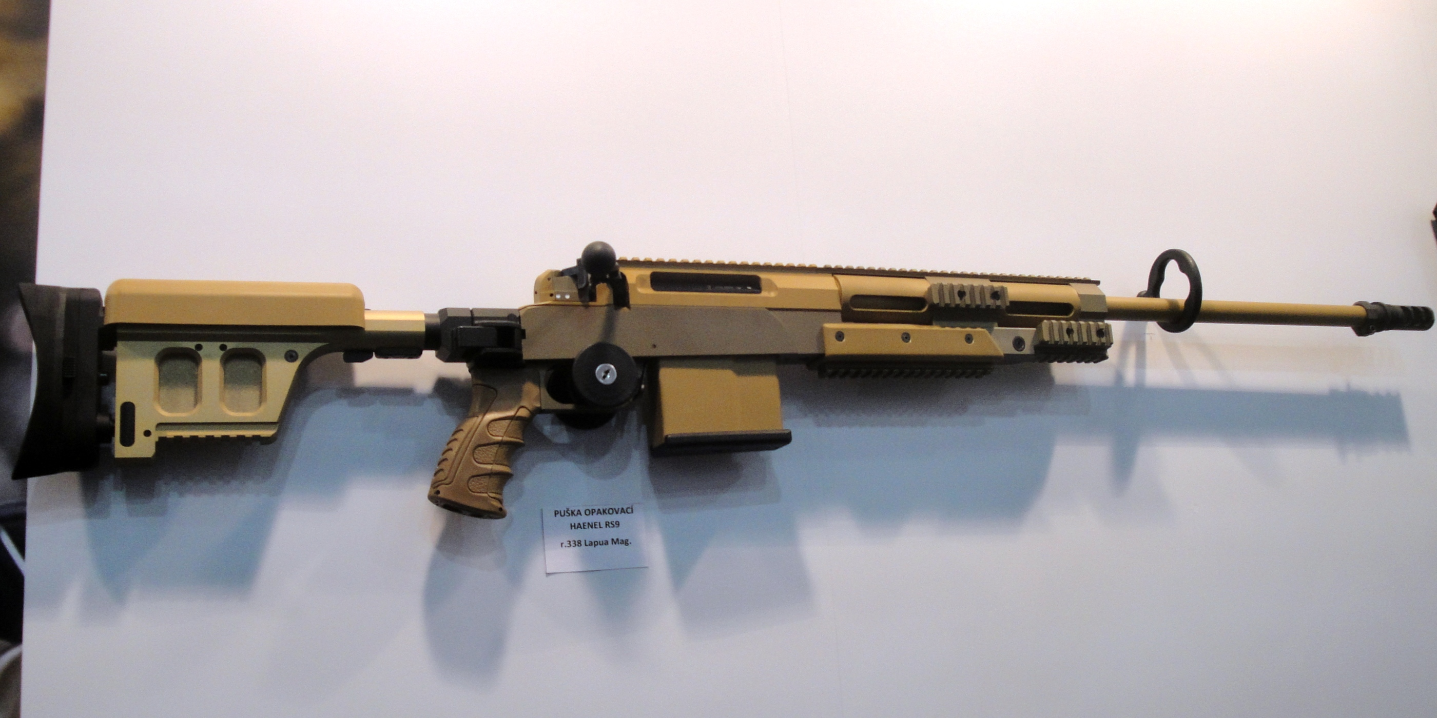 Haenel RS9, IDET/PYROS/ISET 2019, Brno